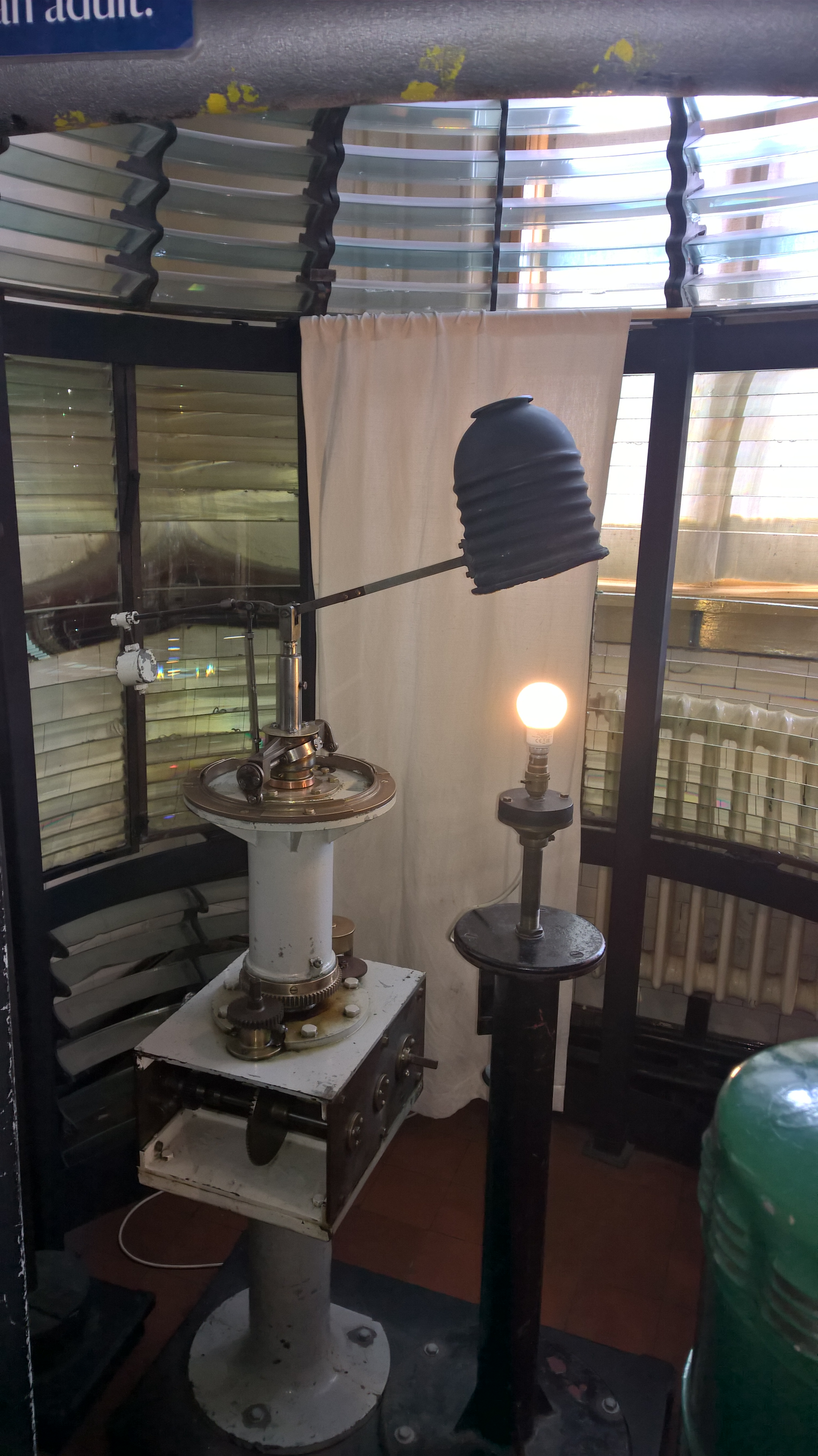 The clockwork occulting mechanism from Coquet Island Lighthouse (which caused the lamp to appear to switch alternately off and on) is now on display at Souter Lighthouse.